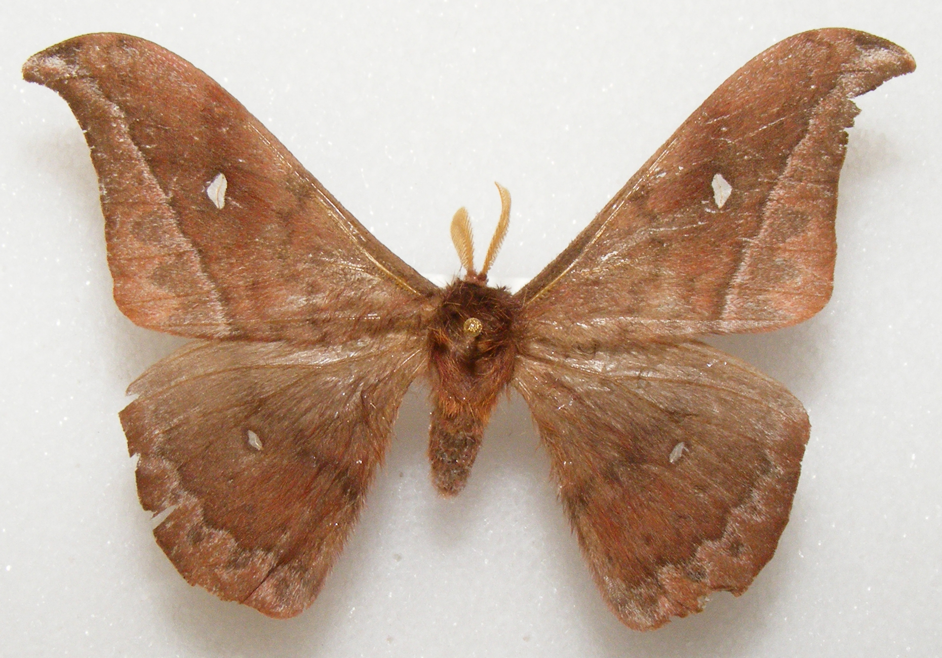 Copaxa cydippe adult from the Texas A&M University Insect Collection